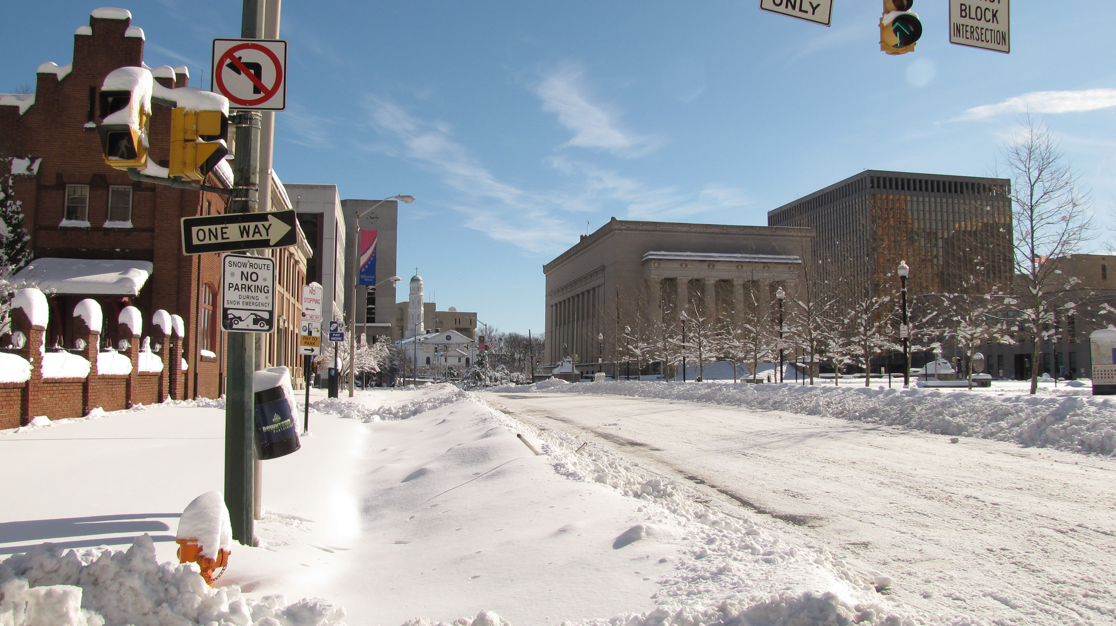 400 block of East Lexington Street in Baltimore, MD, looking east, with War Memorial Building and St. Vincent de Paul Church in the background, after the blizzard of Feb 5/6, 2010